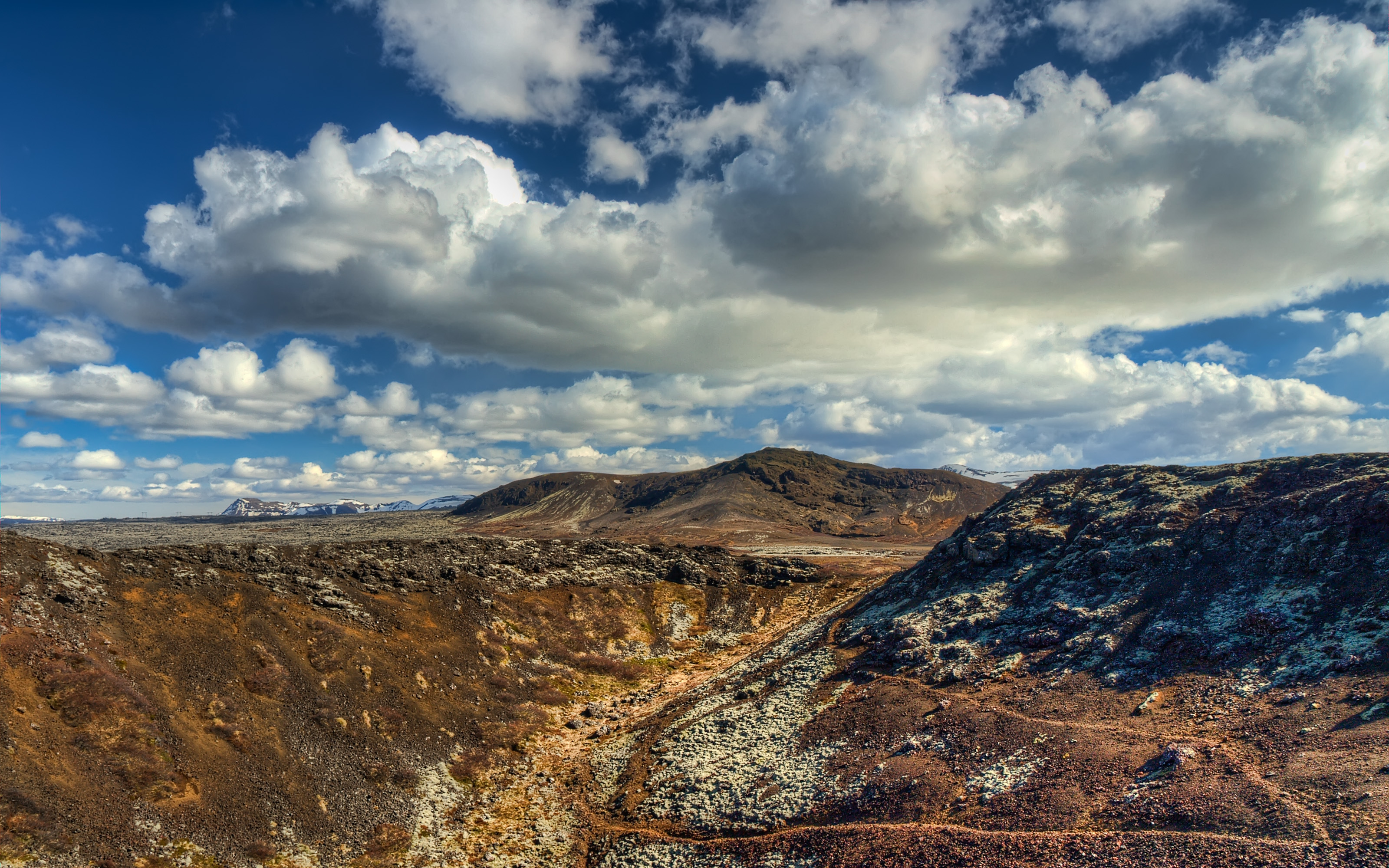 The crater.